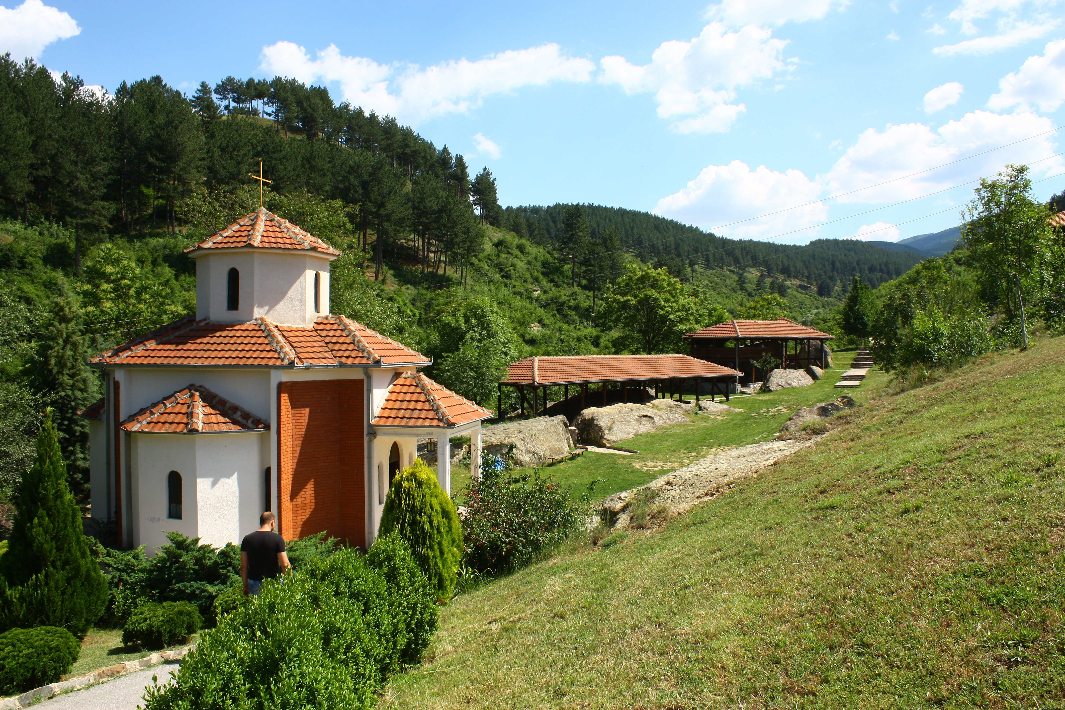 Church of the Theotokos Life Giving Spring in Delčevo Monastery, Macedonia